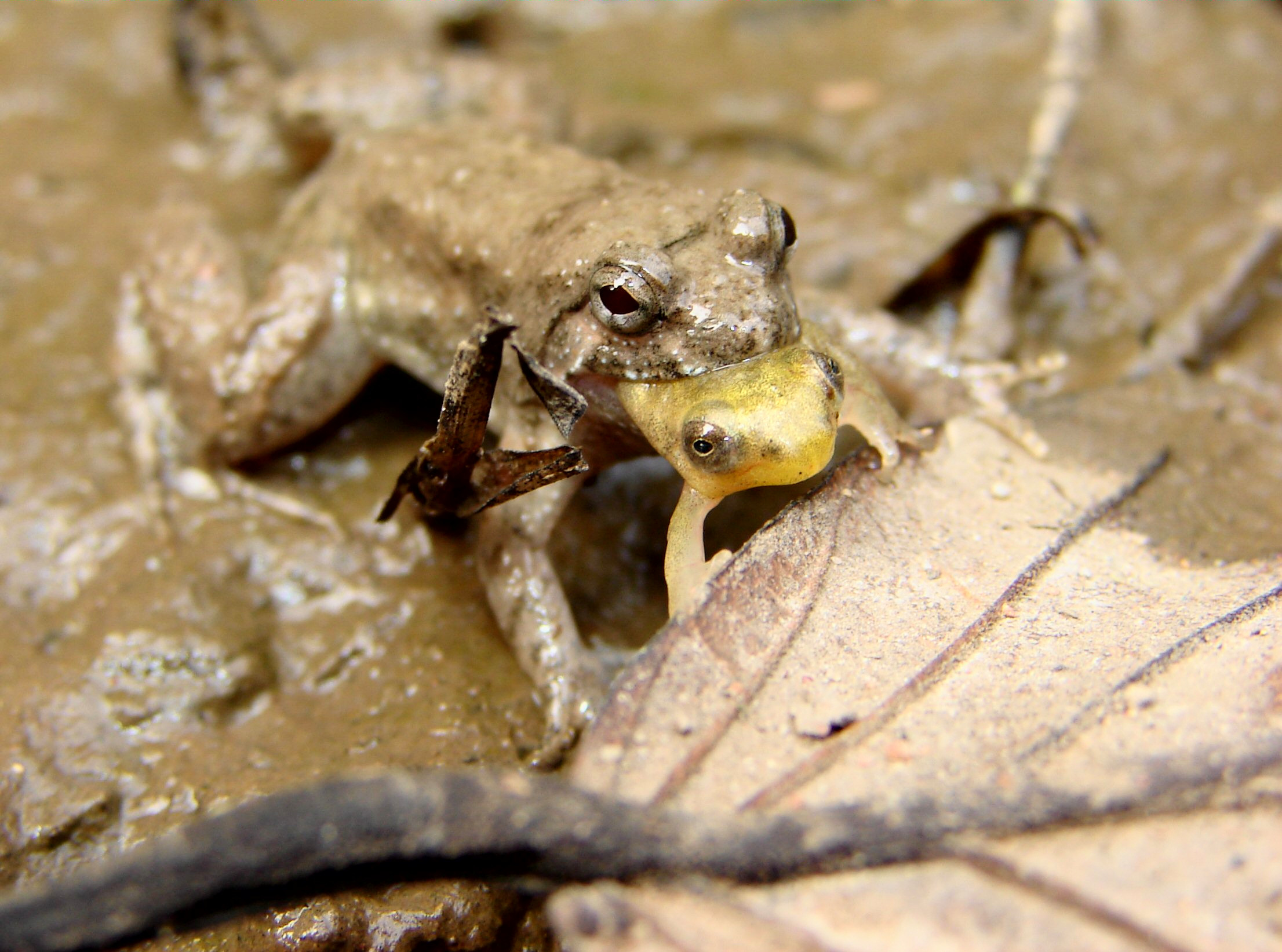 A froglet waves goodbye to the world as it disappears down the throat of an adult ground frog near Siem Reap, Cambodia. Most frogs are carnivores, and cannibalism is not much frowned upon among frogs. This is the last photo in a series that can be found at